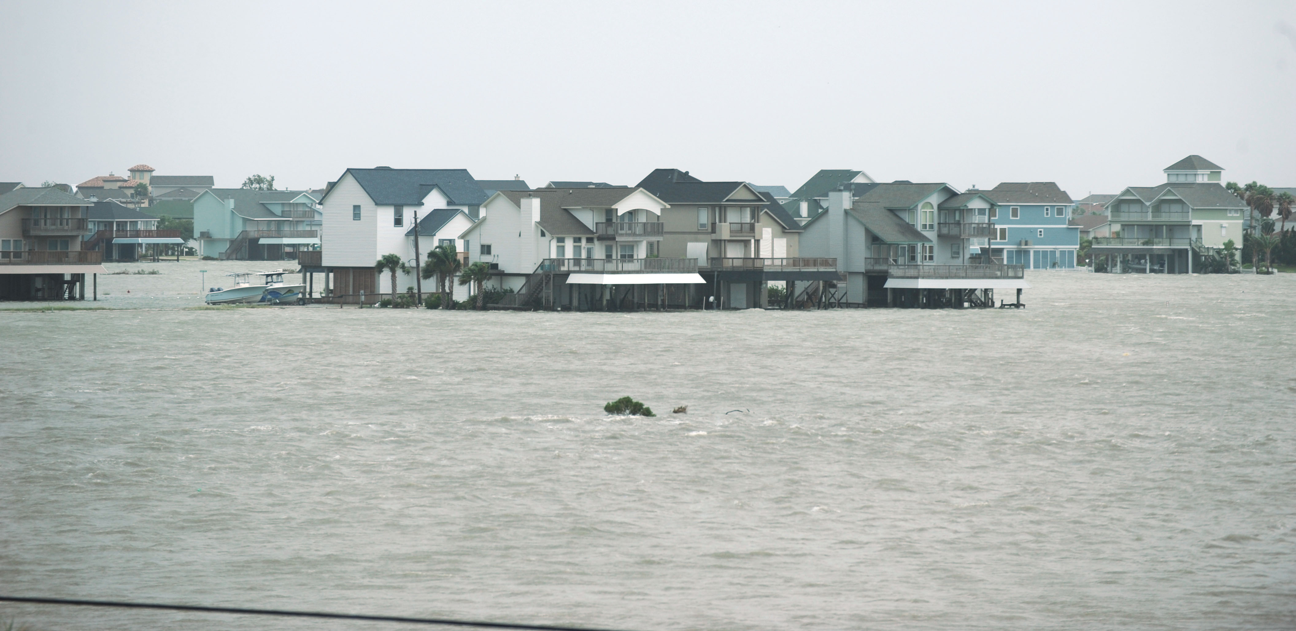 Galveston TX- Waters rise in this neighborhood as well as areas throughout the city as Hurricane Ike approaches the east coast of Texas.